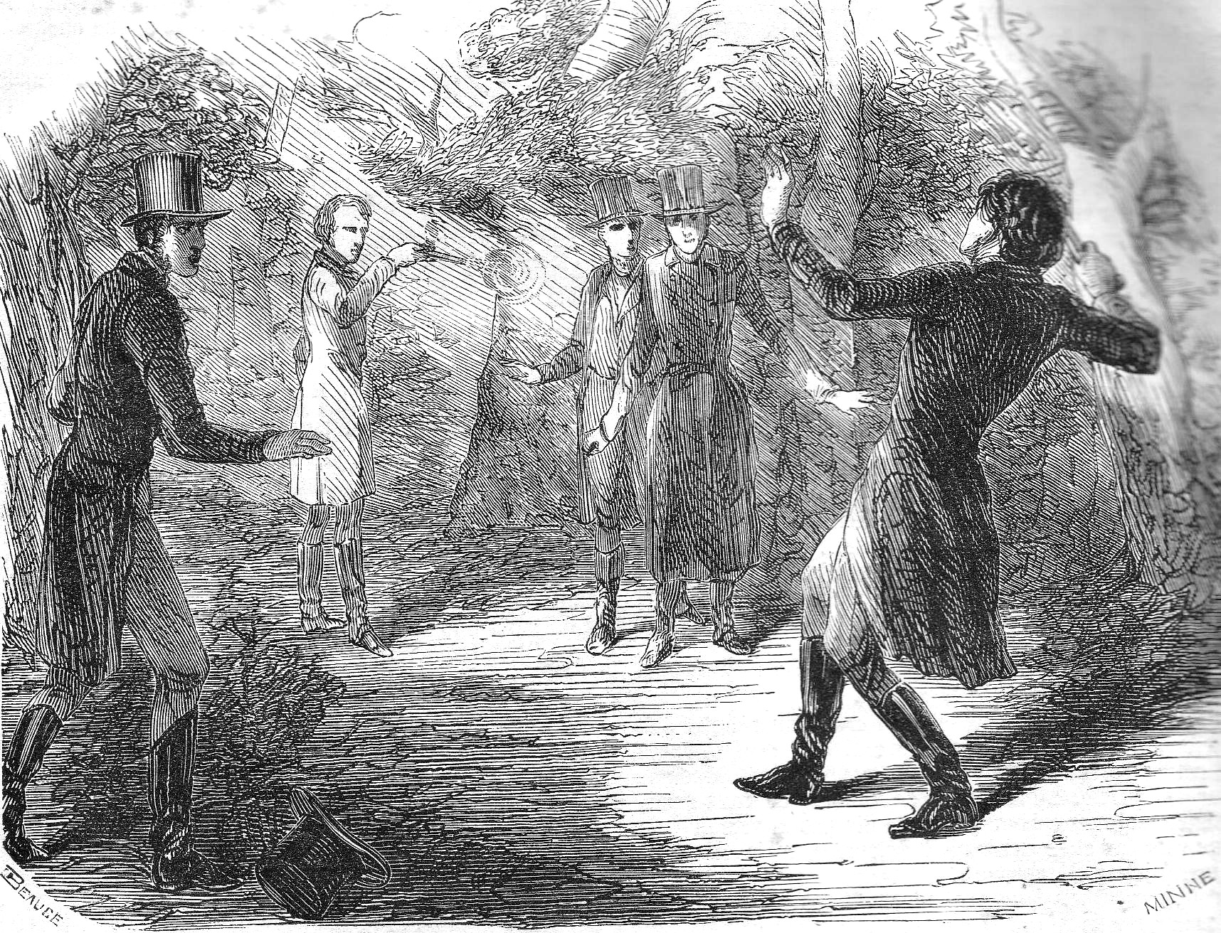 Two protagonists clash gun before three witnesses.